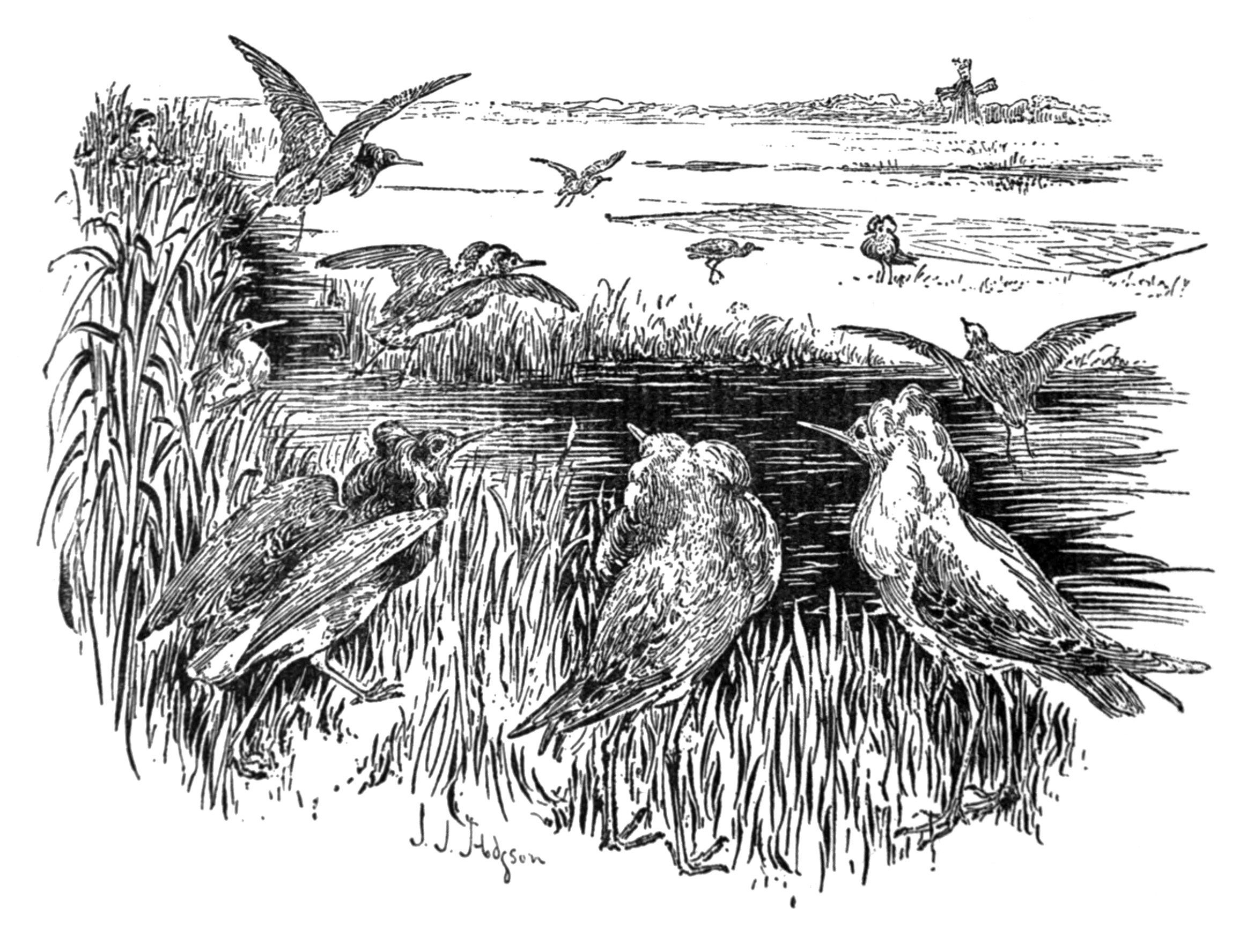 Illustration of the trapping of Ruffs using a clap net